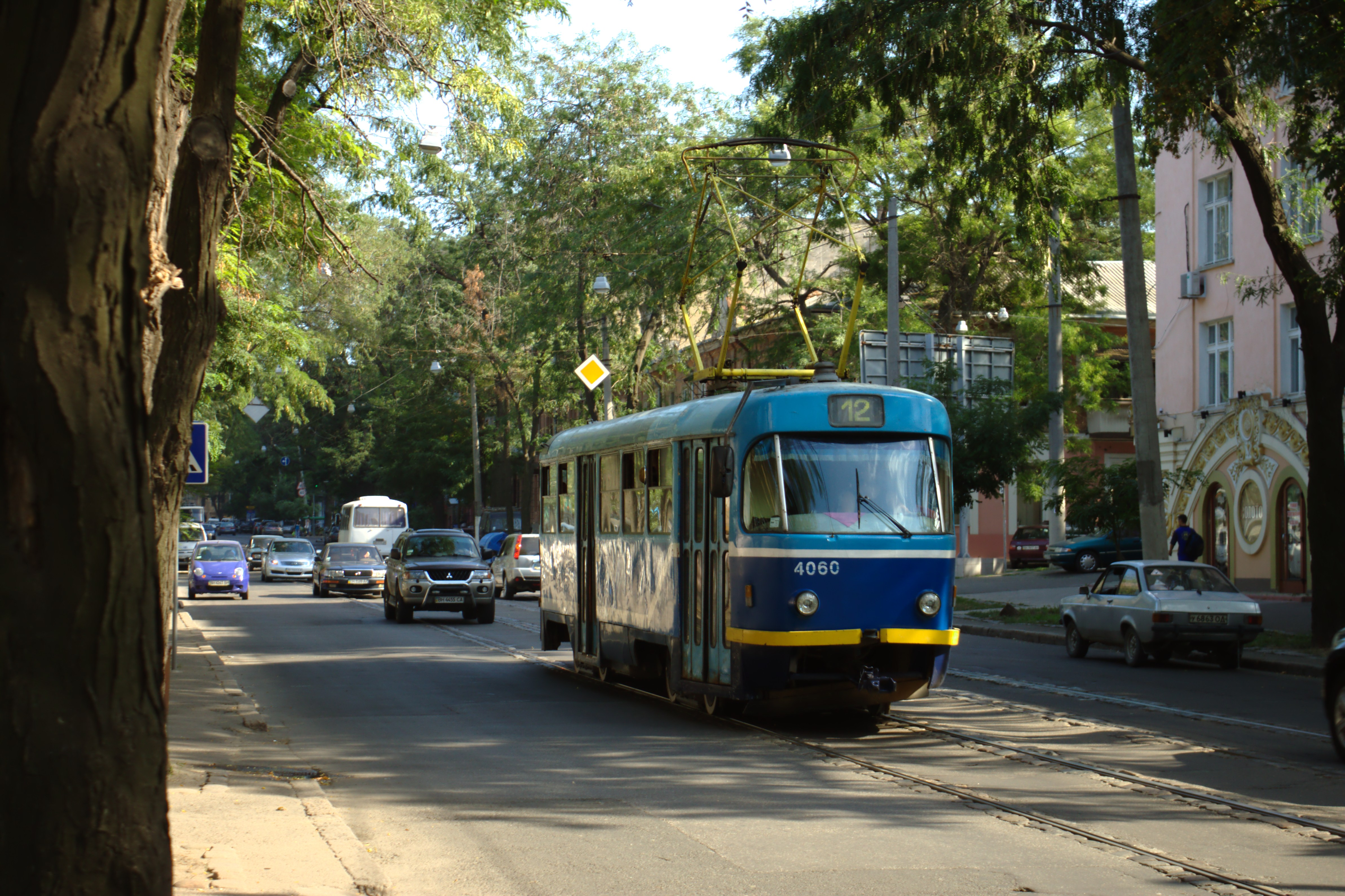 A Czech-built tram at Sofiyska street in Odessa, heading to the edge of the city. Odessa Oblast, Ukraine